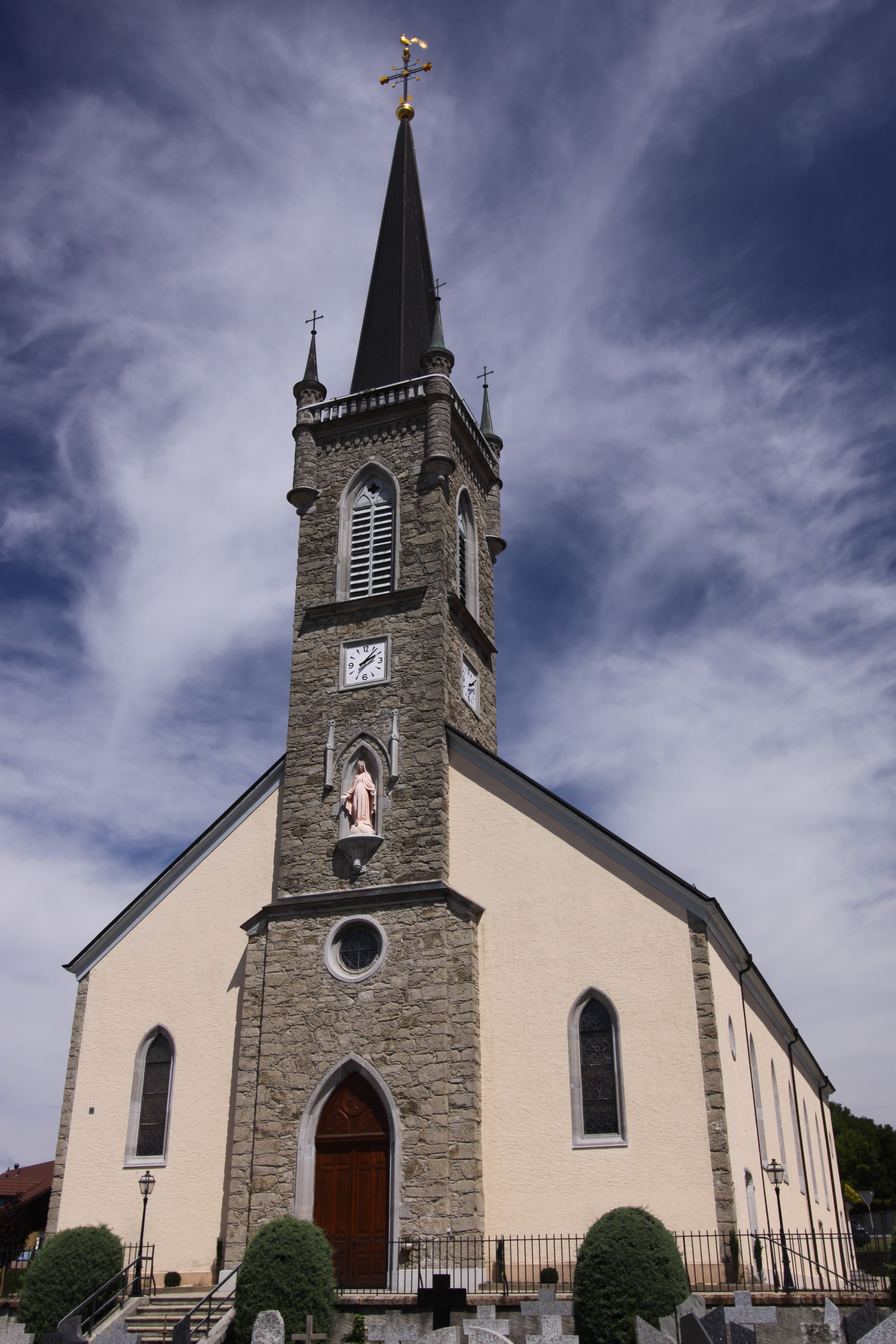 Church of Our Lady of the Assumption, Rue de l’Église 7, Attalens